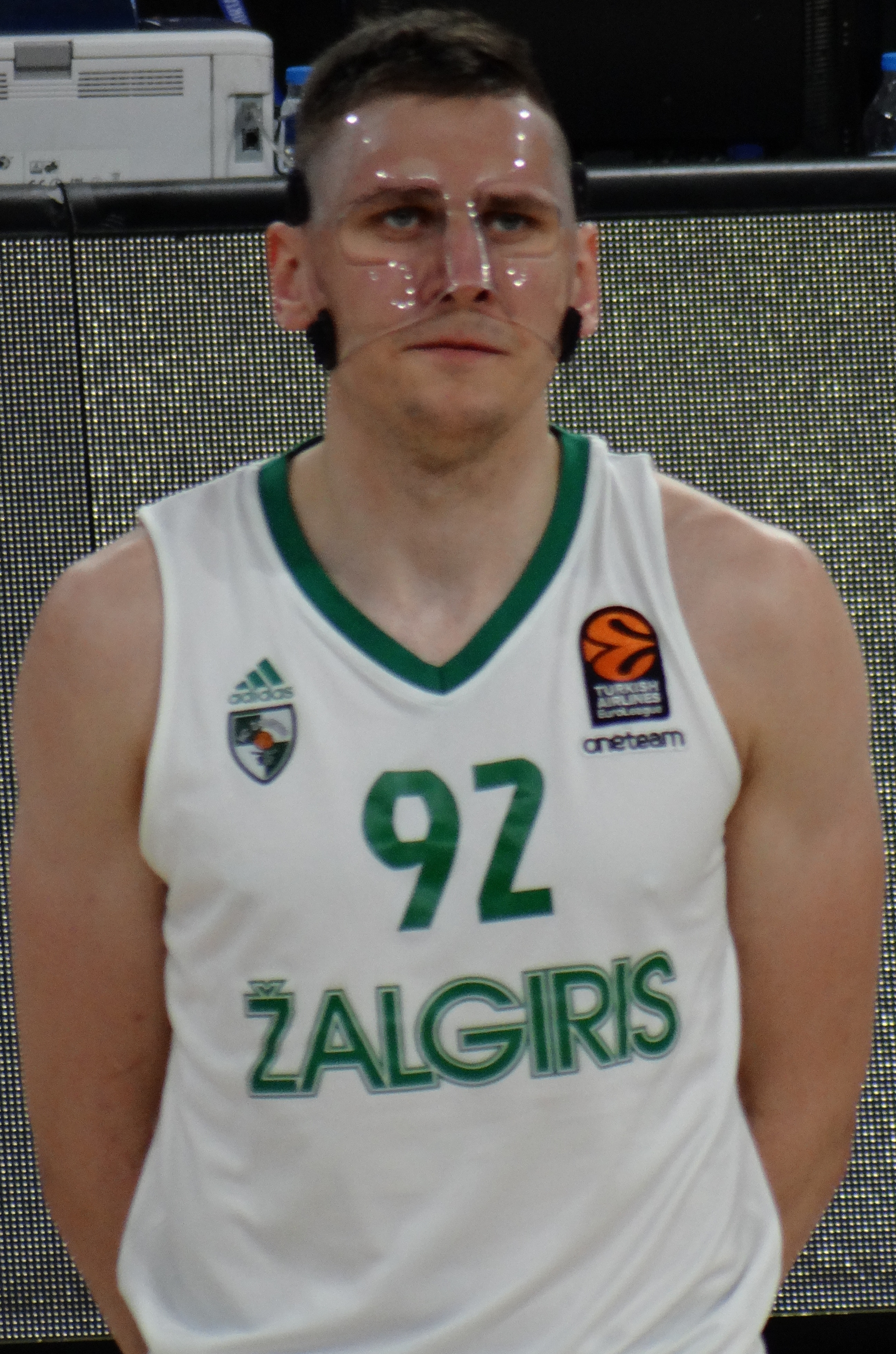 Edgaras Ulanovas 92 BC Žalgiris EuroLeague 20180223